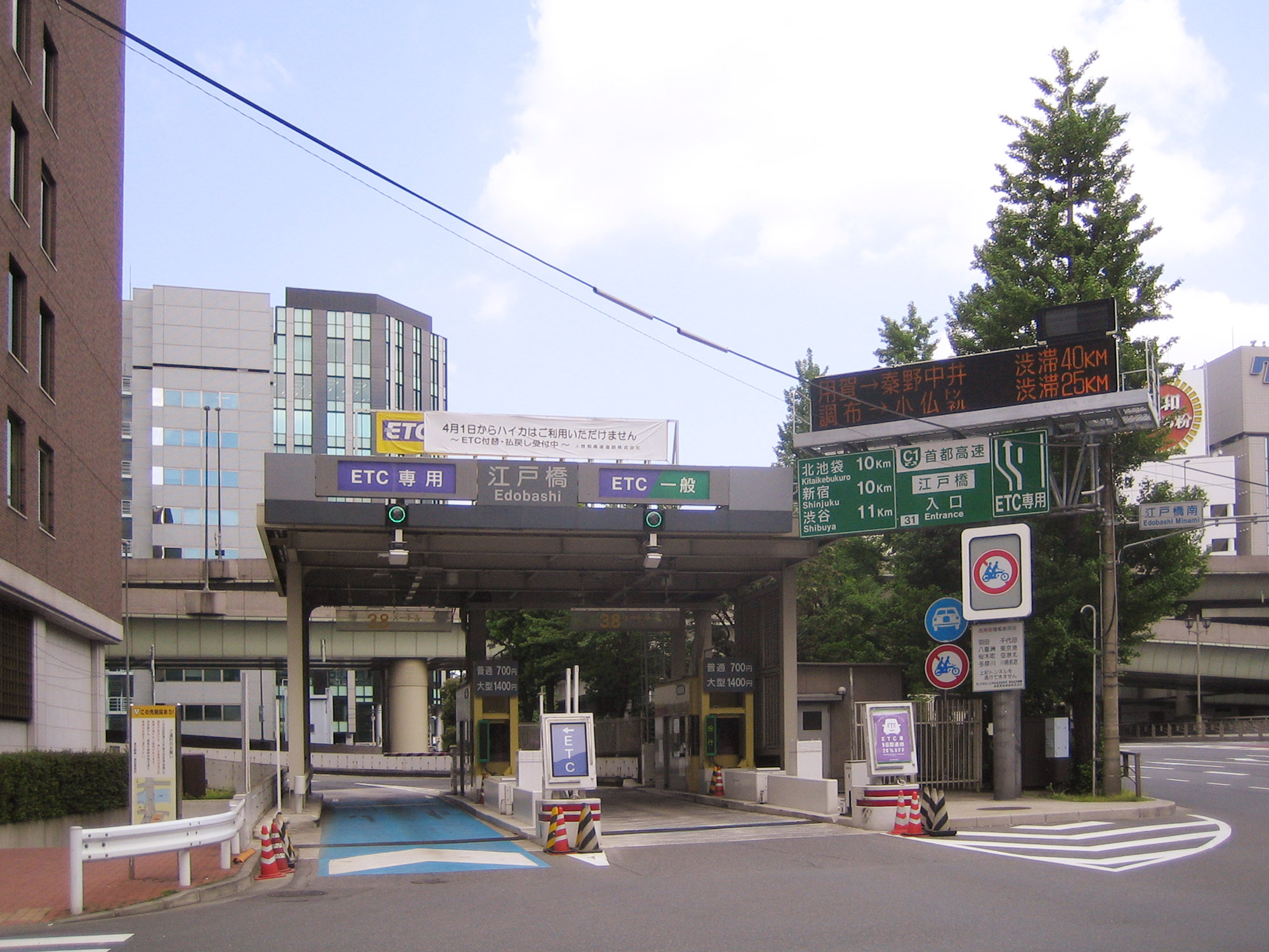 Edobashi Entrance (江戸橋出入口), in Chuo, Tokyo, Japan